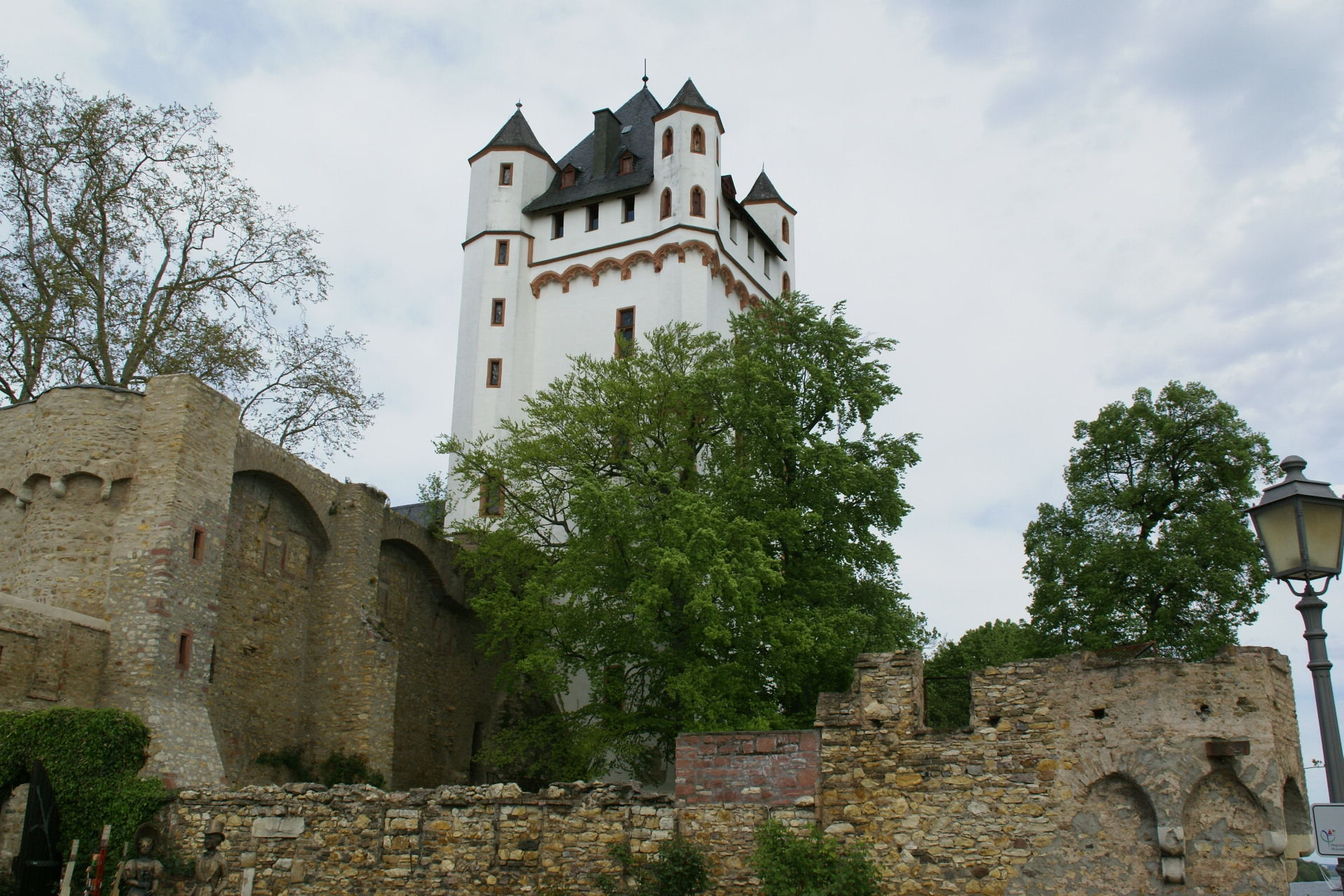 Burh Eltville, Hessen, Germany